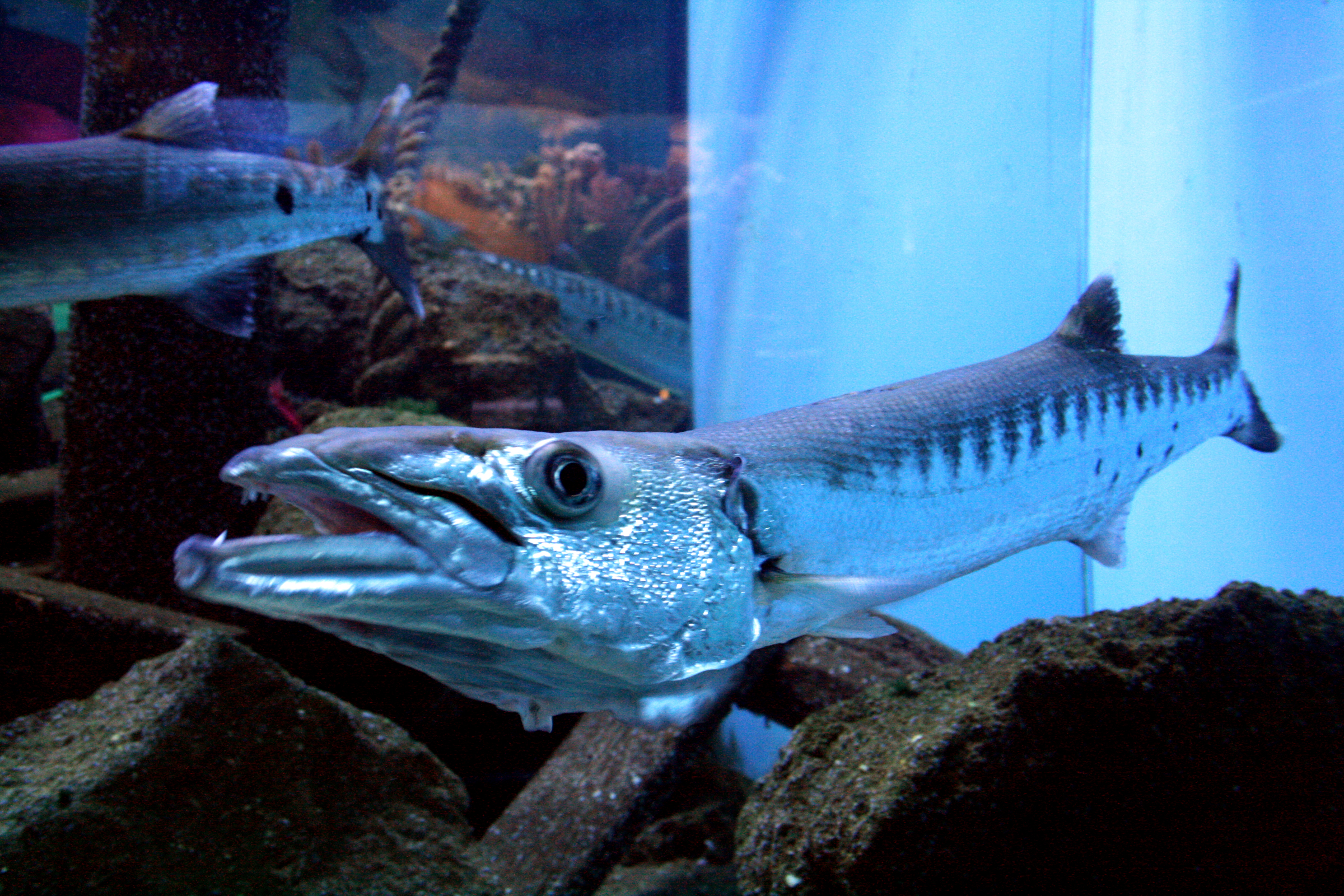 Fish Great barracuda Sphyraena barracuda in Prague sea aquarium, Czech Republic